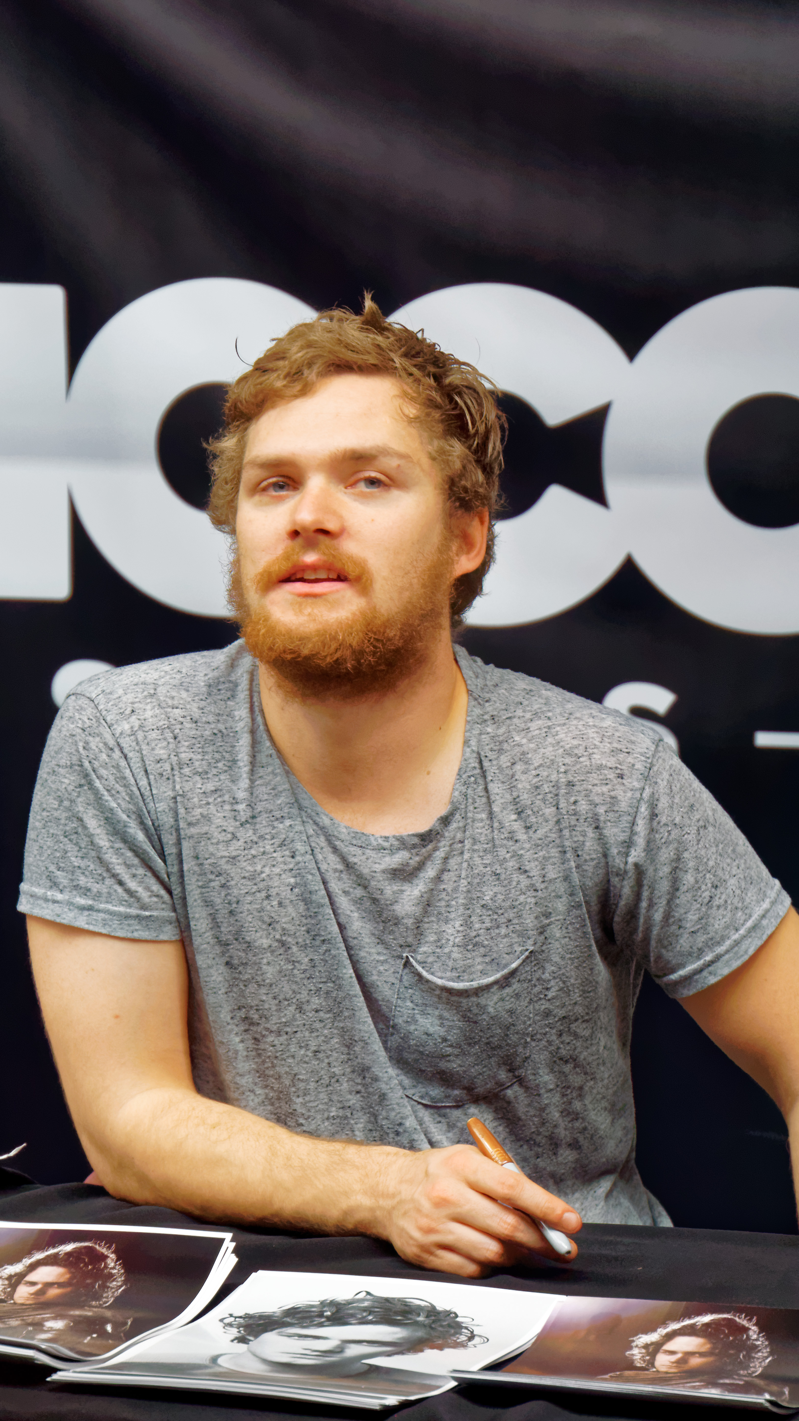 Comic Con Brussels 2016 (CCBX 2016).